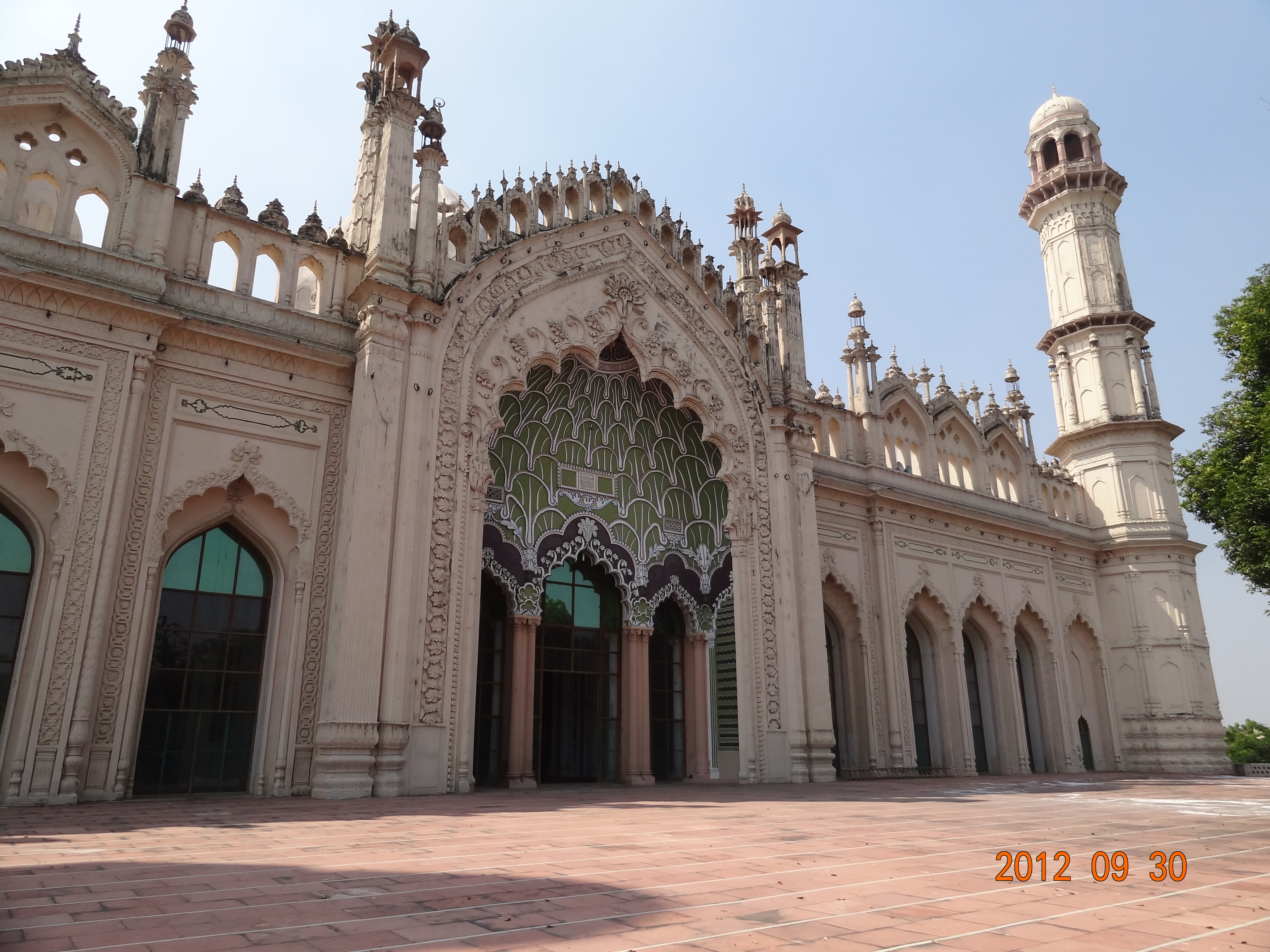 Jama Masjid near Hussainabad